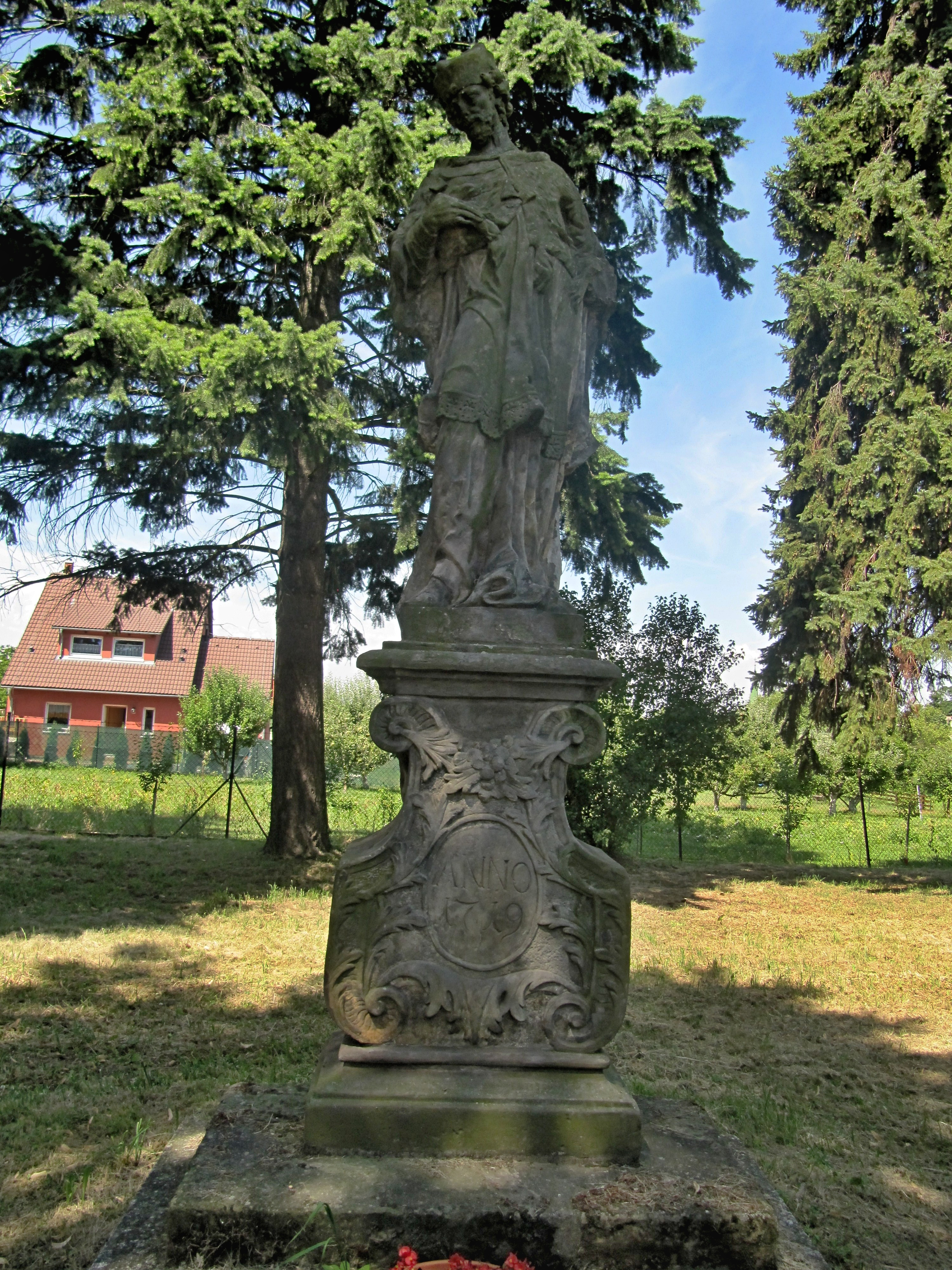 Říkovice, Přerov District, Czech Republic. Statue of St. John of Nepomuk, dated 1719, in front of house No. 113, originally in the north of the village.